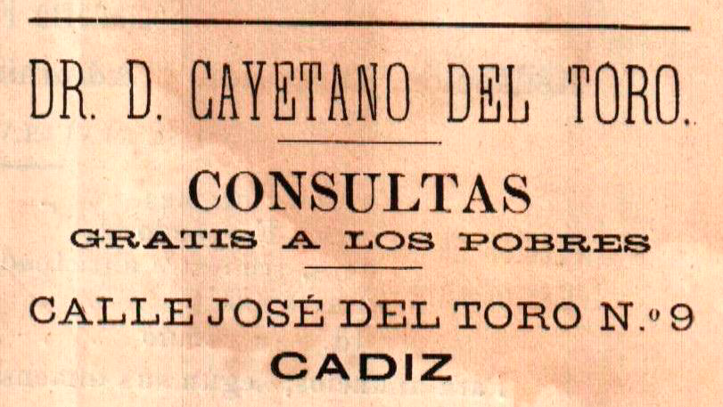 Cartel Don Cayetano